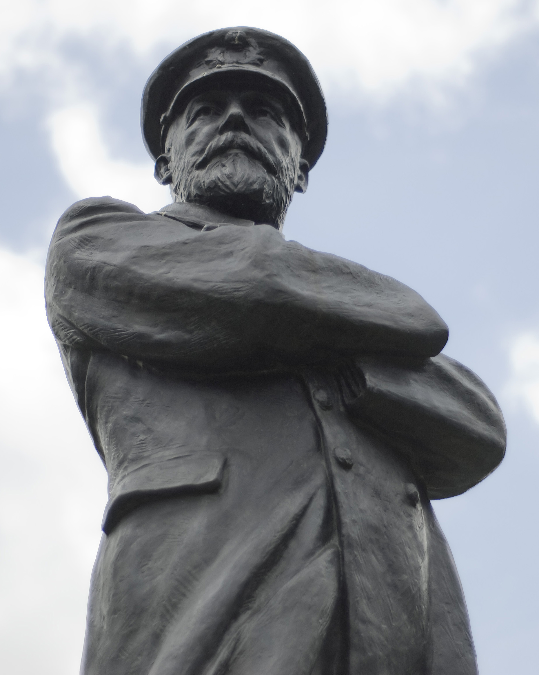 Statue of Captain Edward Smith by Kathleen Scott in Beacon Park, Lichfield, Staffordshire, United Kingdom